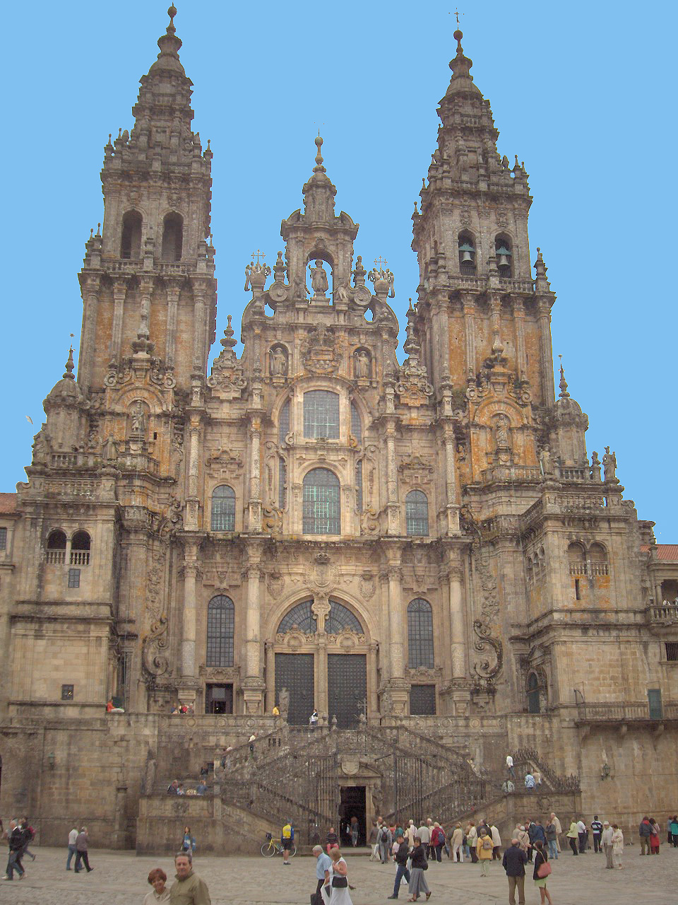 façade of the cathedral of Santiago de Compostela, Spain